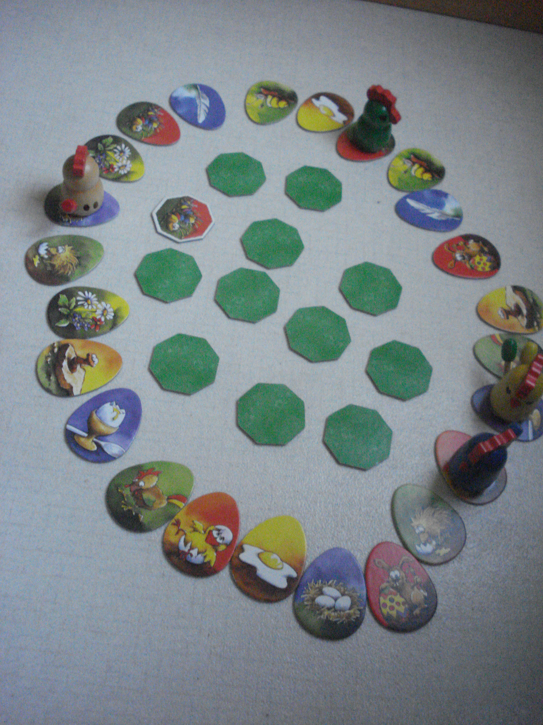 Example of the game: Chicken Cha Cha Cha (top view)